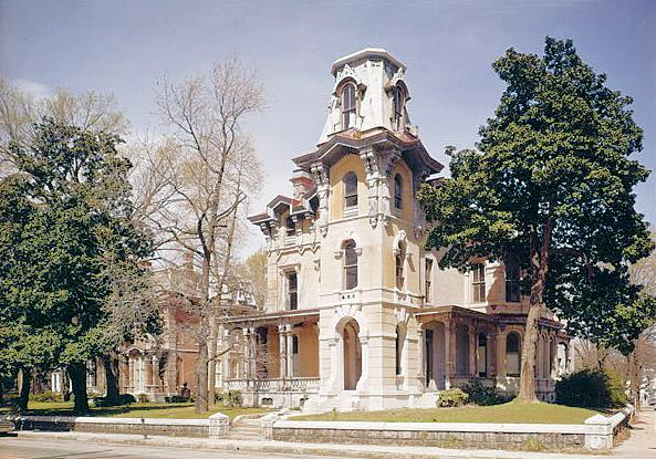 Goyer-Lee House. Second Empire style Queen Anne architecture style, in the Victorian Village, Tennessee. Historic American Buildings Survey—HABS image. Historic American Buildings Survey (HABS), Library of Congress Collection Item Title Goyer-Lee House, 690 East Adams Street, Memphis, Shelby County, TN Color Transparencies: 1 Call Number HABS TENN,79-MEMPH,15- Created/Published: Documentation compiled after 1933.